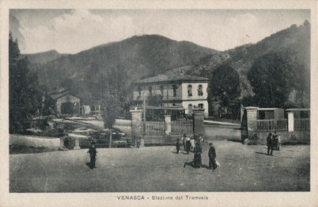 Venasca, tramway station